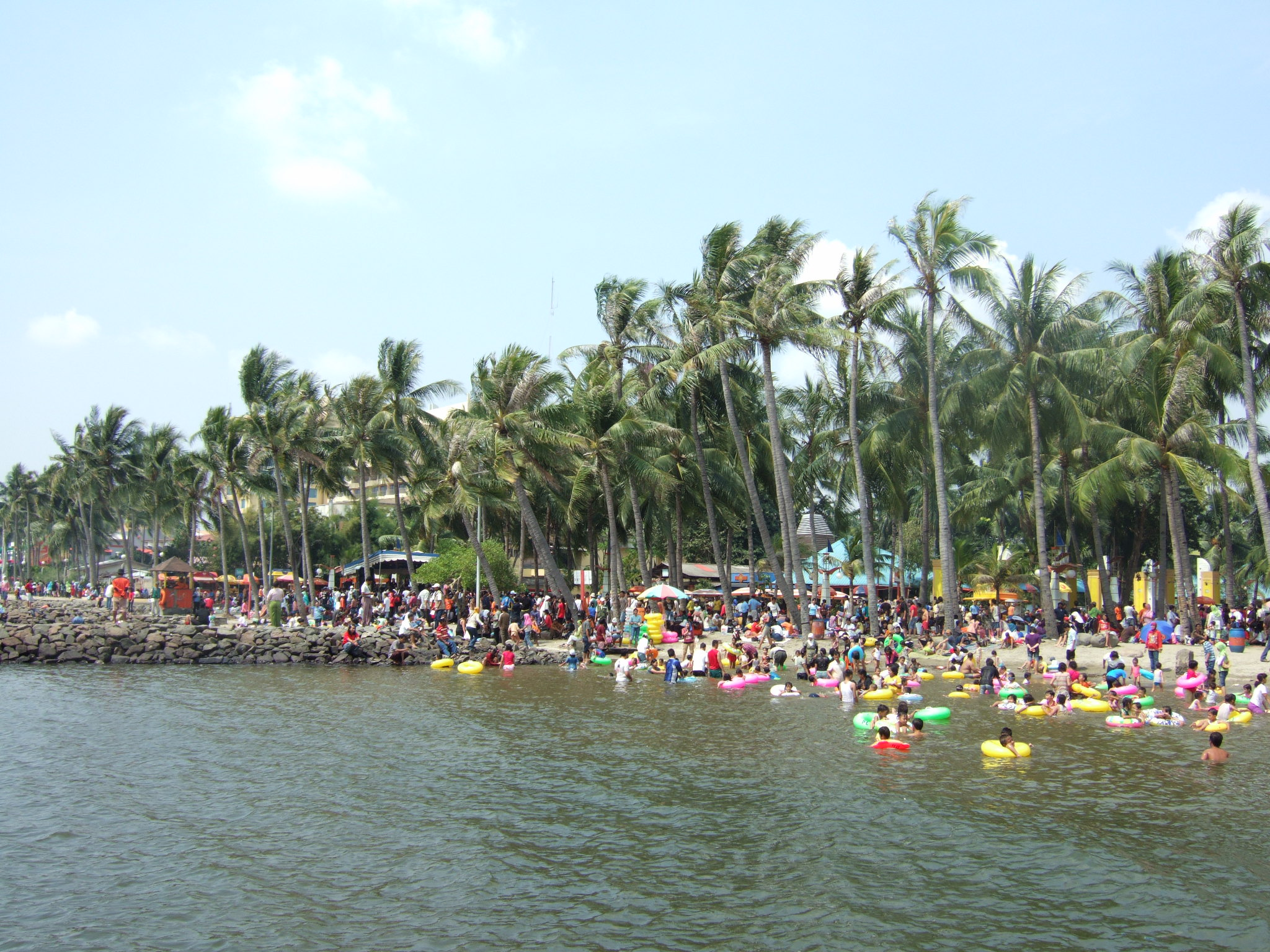 Festival Beach, Ancol Jakarta Bay City, Indonesia